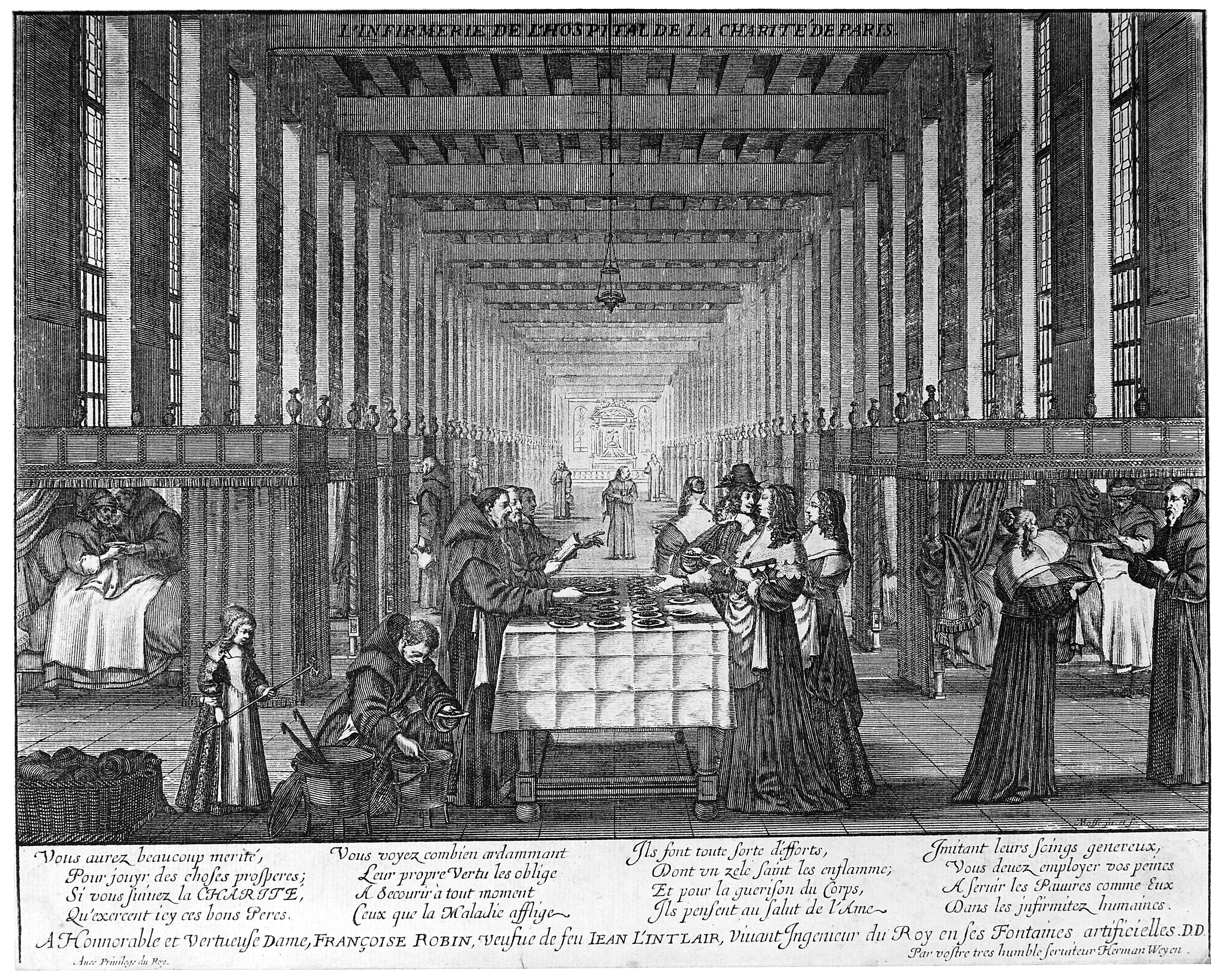 Hopîtal des Frères de la Charité, Paris: perspective view showing Anne d'Autriche visiting the charitable work of the monks. Line engraving by A. Bosse. Iconographic Collections Keywords: Jean. L'Intlair; Françoise. Robin; Abraham Bosse; Hopîtal des Frères de la Chairté (Paris, France)